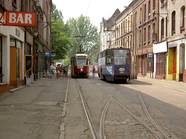 A passing loop on a narrow street in Lipiny